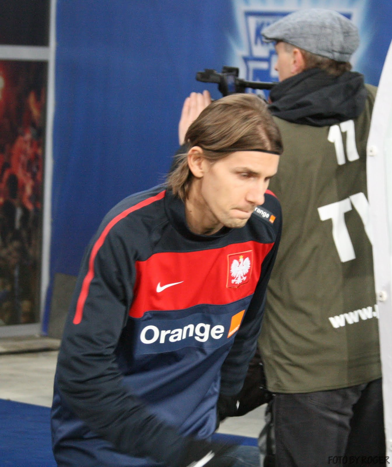 Polish football player Euzebiusz Smolarek